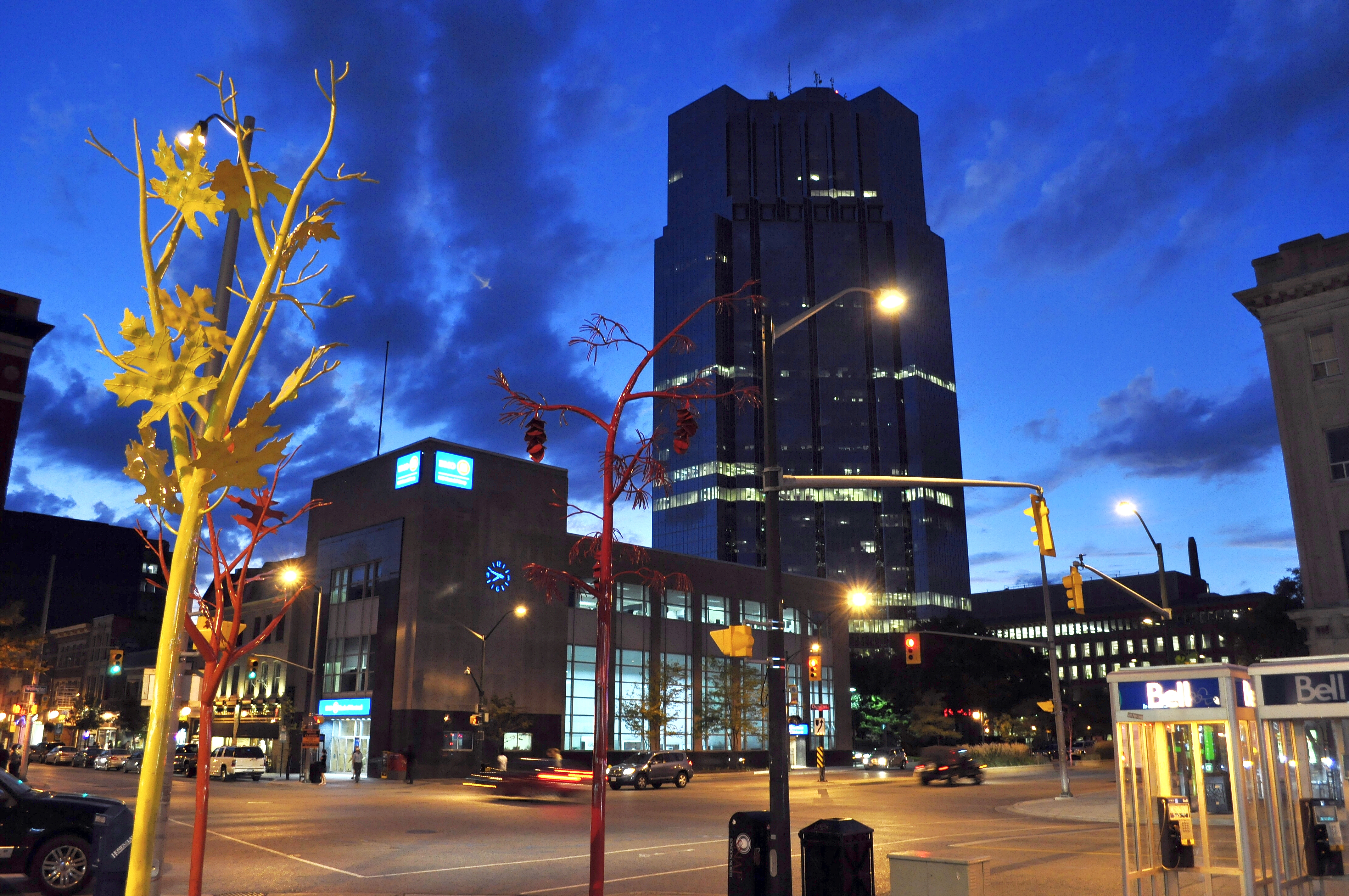 One London Place shot at night with those amazing metal trees in the forefront.